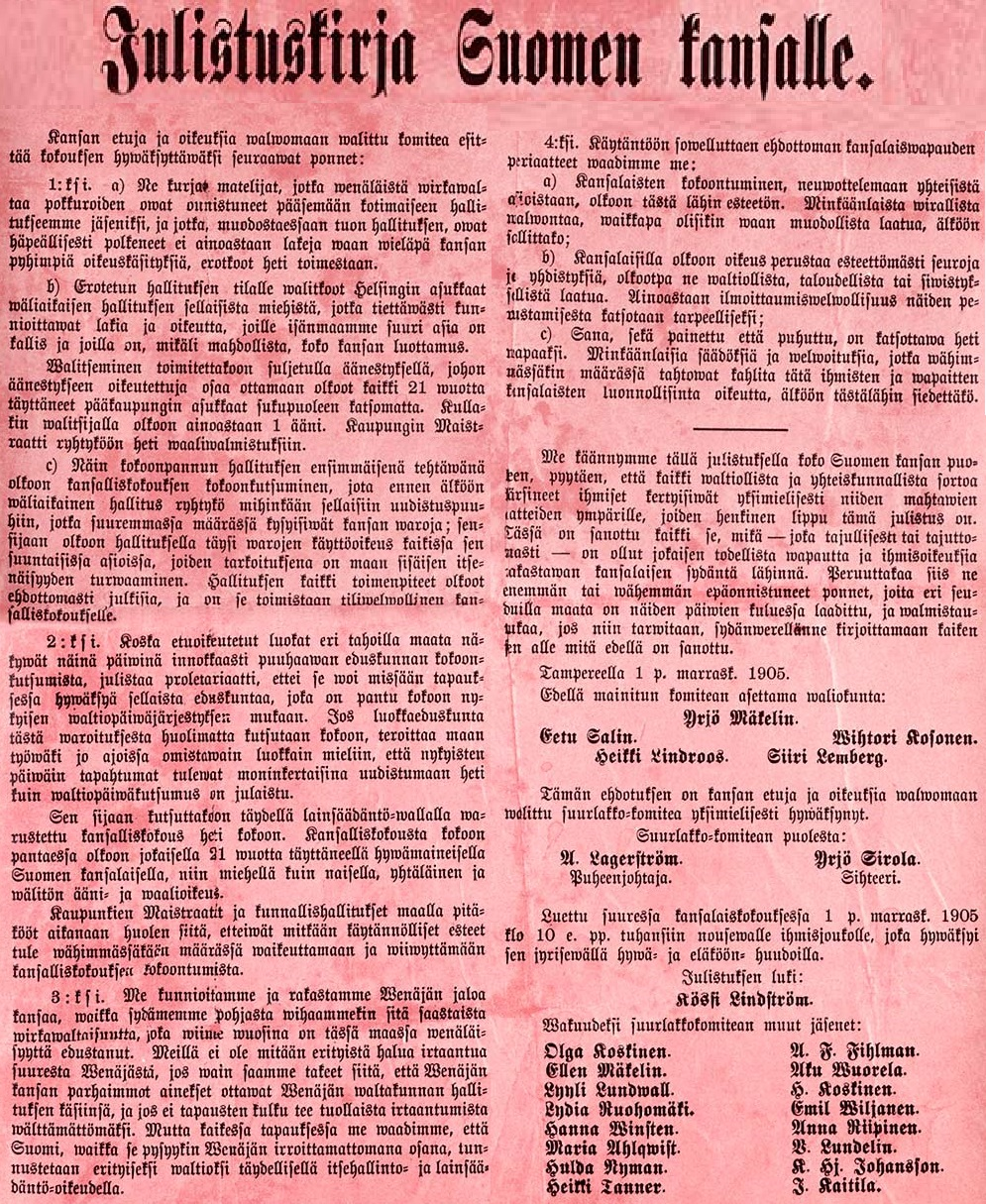 The so-called Red Address of Tampere (1905), written by Yrjö Mäkelin, a moderate Finnish social democrat.